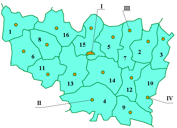 Vladimir Oblast map by Al Silonov